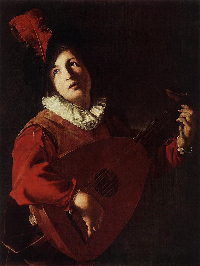 Lute Playing Young Manlabel QS:Len,"Lute Playing Young Man"label QS:Lfr,"Le Jeune Joueur de luth"